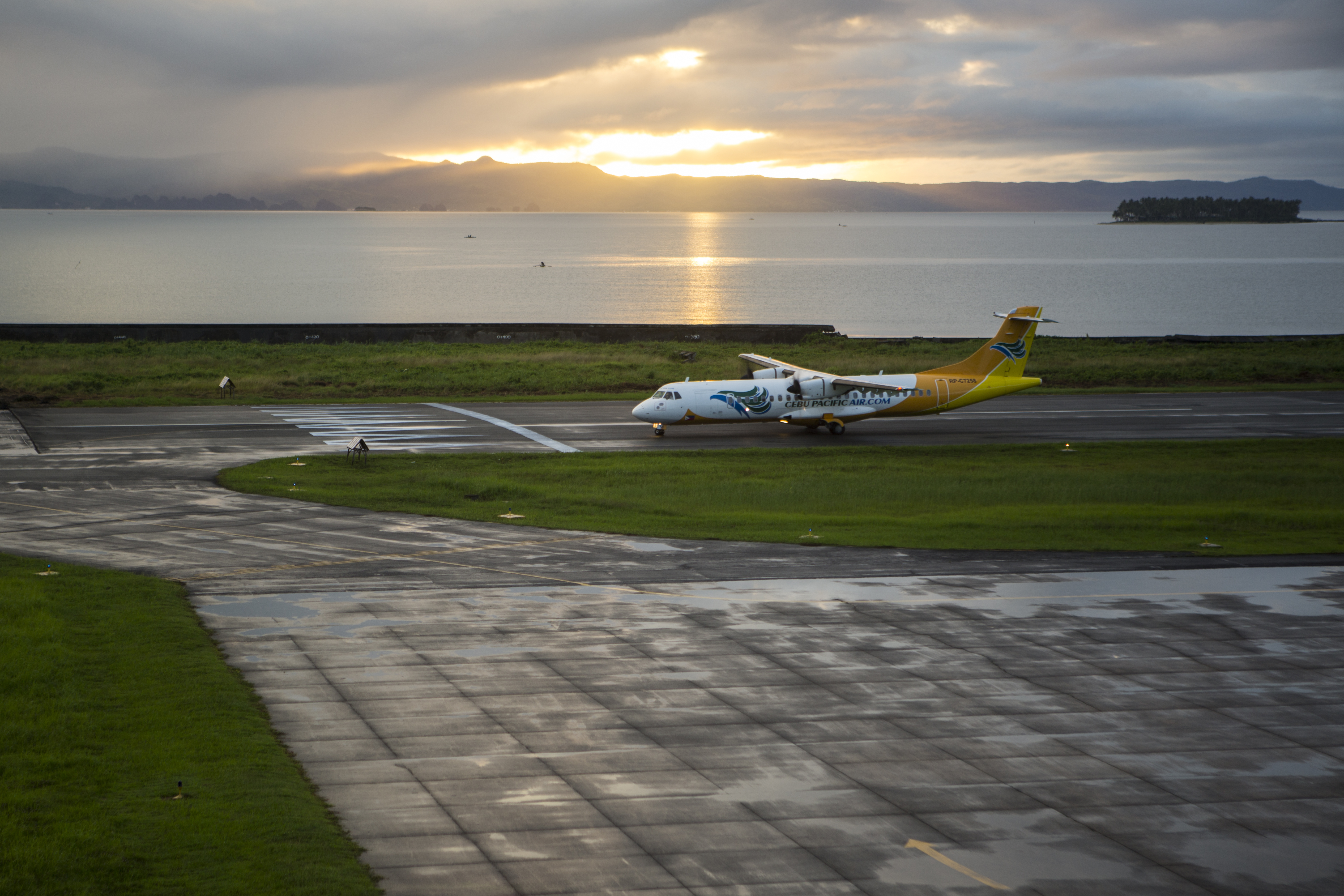 An aircraft operated by Cebu Pacific Air lands during the early morning hours at Daniel Z. Romualdez Airport in Tacloban, Leyte, Philippines, Nov. 16, 2014. The airport was overwhelmingly damaged during Typhoon Yolanda on Nov. 8, 2013, but quickly re-opened three days after the storm through the relief efforts of Operation Damayan. (U.S. Marine Corps photo by MCIPAC Combat Camera Staff Sgt. Jeffrey D. Anderson/ Released)